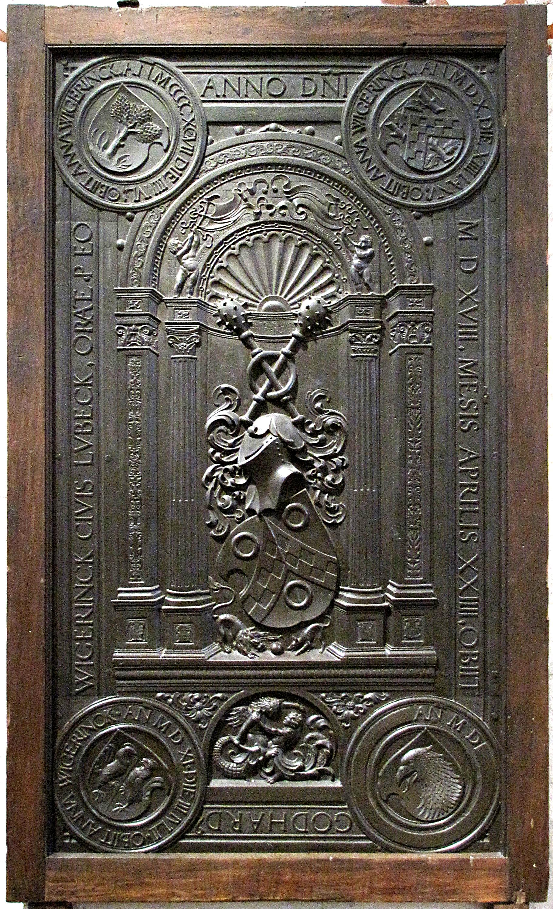 Bronze epitaph for Gottgard Wiggerinck in Marienkirche, Lübeck, attributed to workshop of Peter Vischer